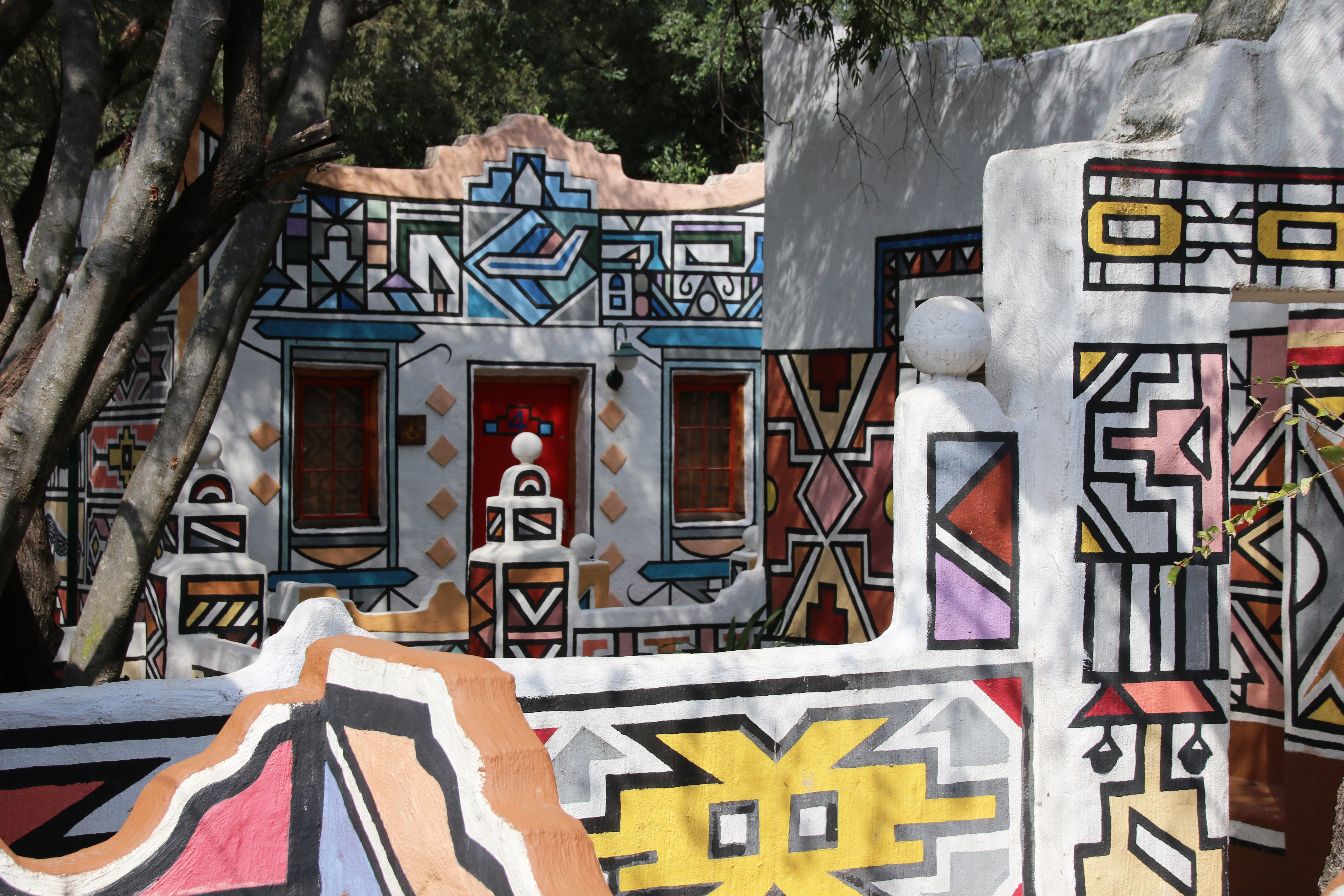 Ndebele Architektur im Lesedi Cultural Village, Südafrika